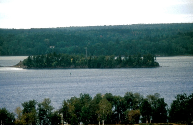 THIS IS A VIEW OF THE ACTUAL ISLAND LOCATED IN THE ST. CROIX RIVER BETWEEN MAINE AND NEW BRUNSWICK. PICTURE IS TAKEN FROM THE MAINE SIDE WHERE THERE IS A NATIONAL PARK SERVICE INTERPRETIVE SITE